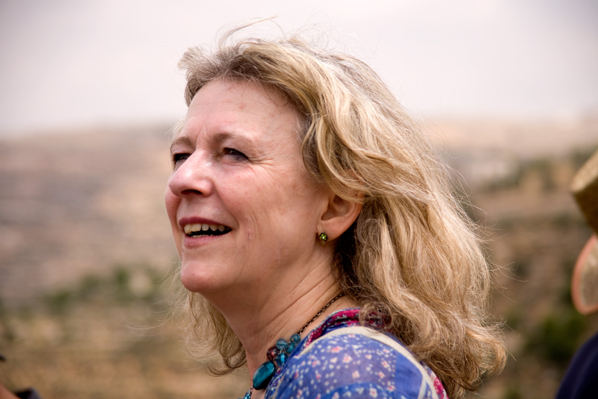 British writer Deborah Moggach